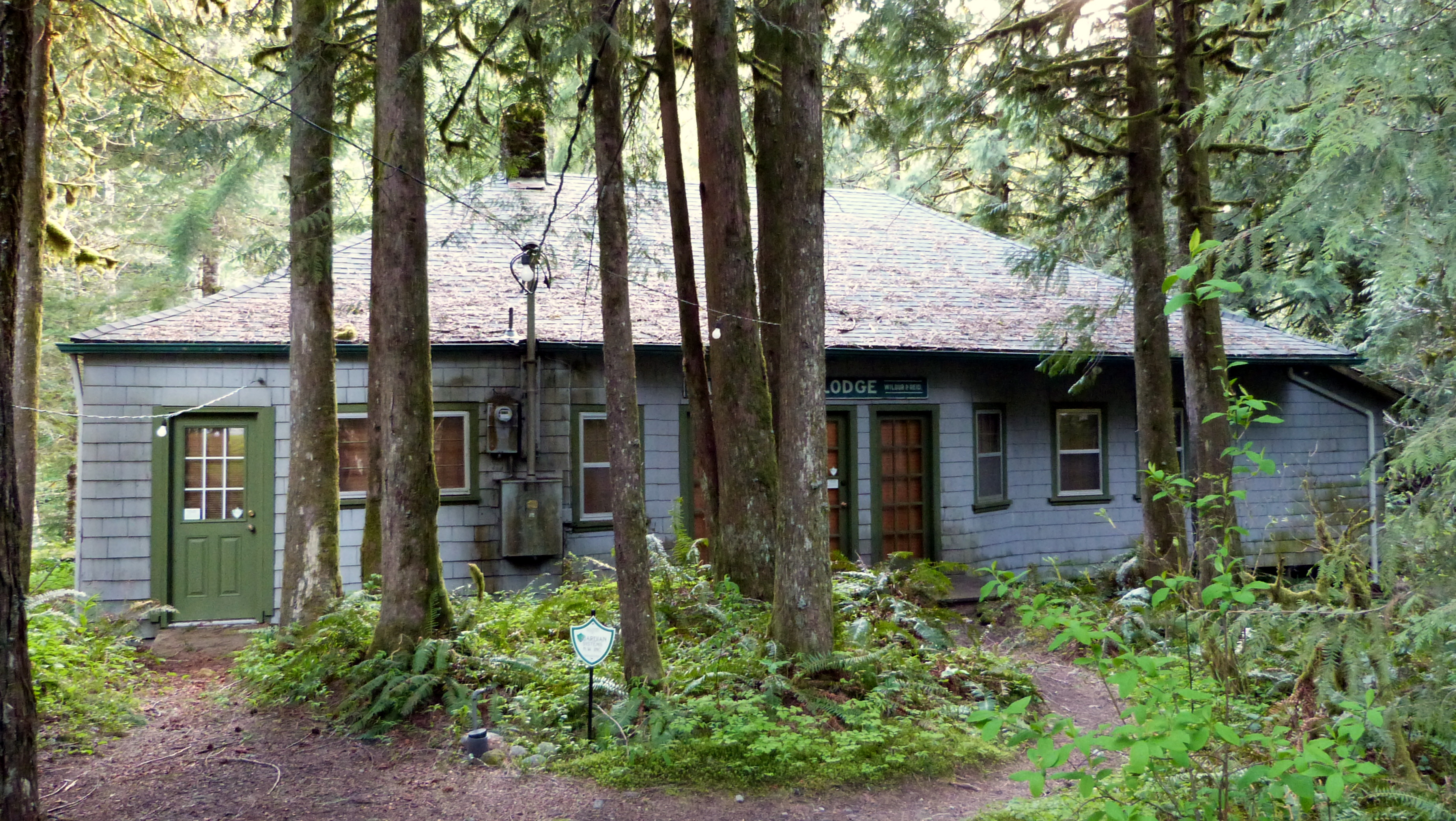 The historic Wilbur and Evelyn Reid's Alderbrook Lodge (built 1914), located at 26863 East Rolling Riffle Lane in Rhododendron, Oregon, United States, is listed on the US National Register of Historic Places.